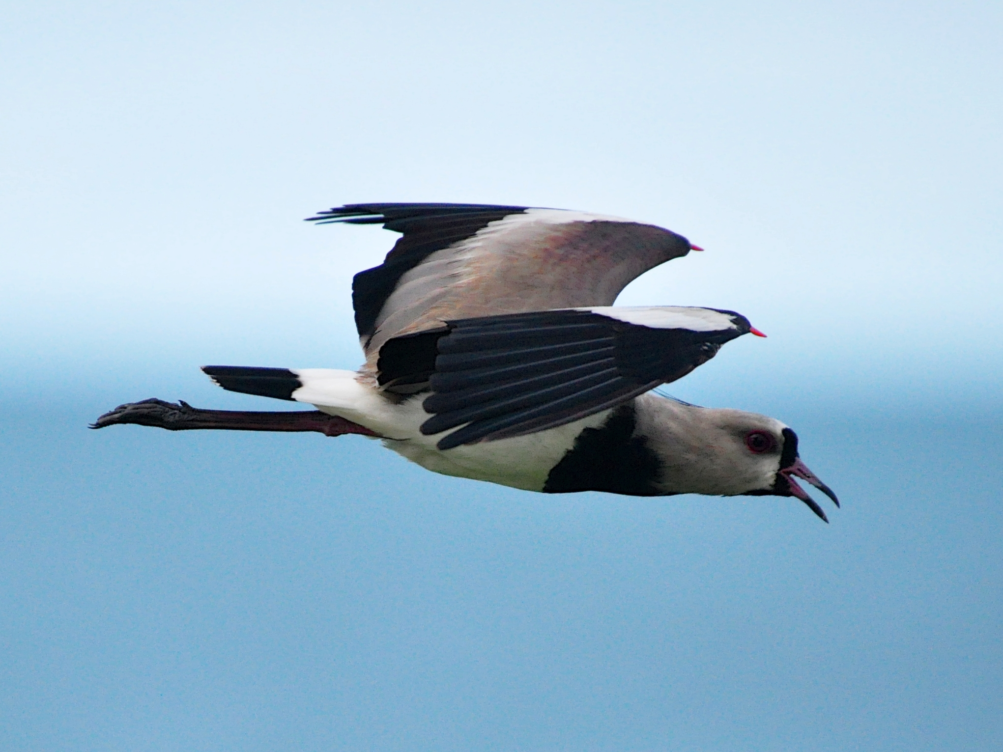 A Southern Lapwing flying in Natal, Rio Grande do Norte, Brazil.